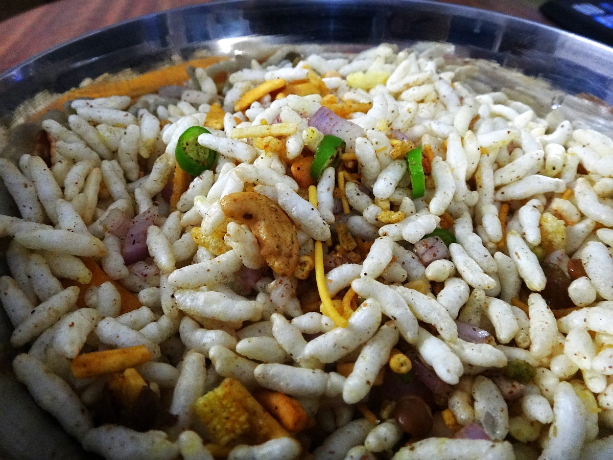 Jhal puri literally means Hot/spicy puffed rice and that's exactly what this is. This is a timeless snack found in all corners of West Bengal and Orissa. Main ingredient is puffed rice with an assortment of spices, chopped onions, chopped chillis and mustard oil. The mustard oil is very important ingredient of Jhal muri.